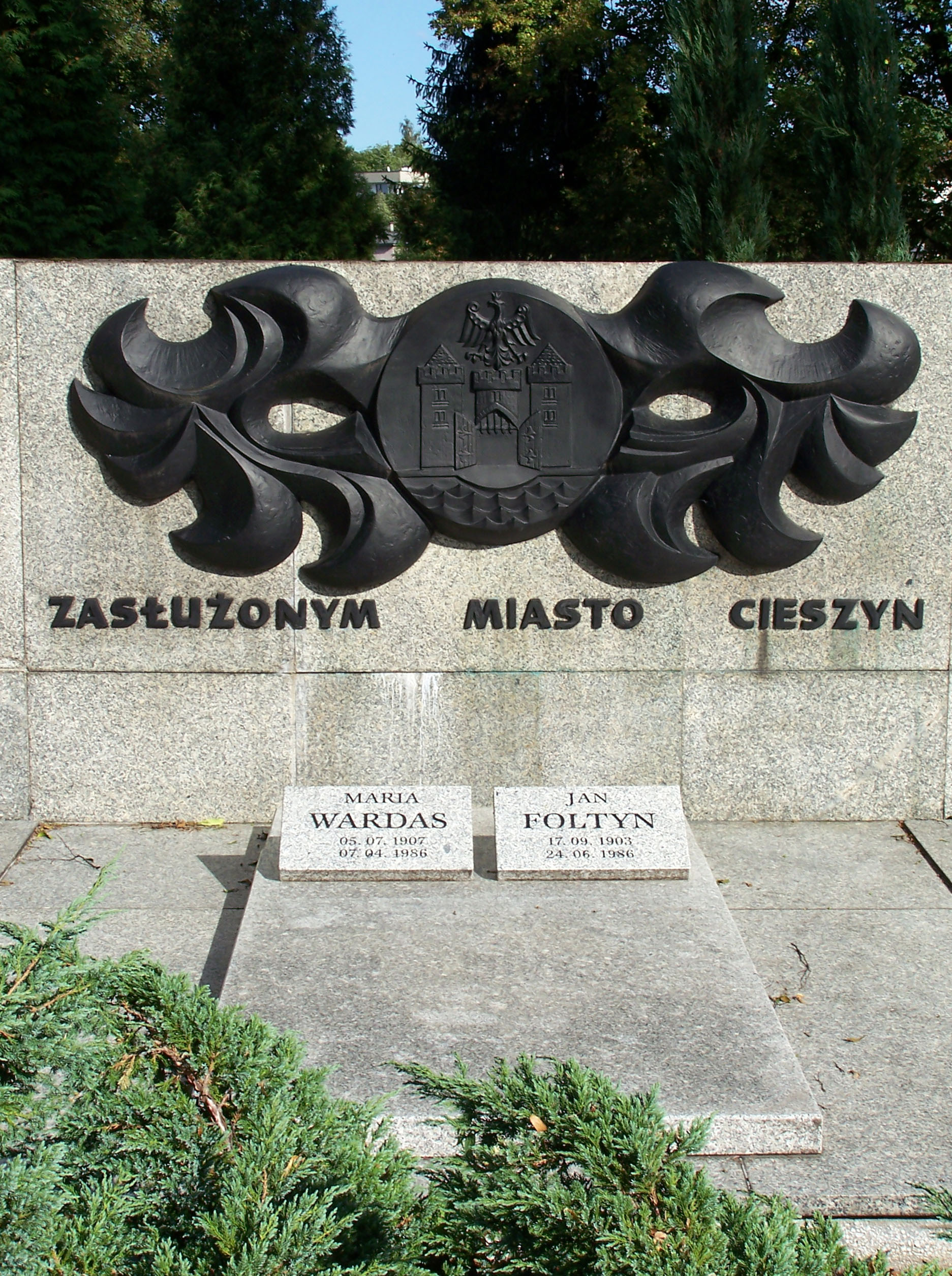 Graves of Maria Wardas and Jan Foltyn at the Communal Cemetery in Cieszyn, Poland